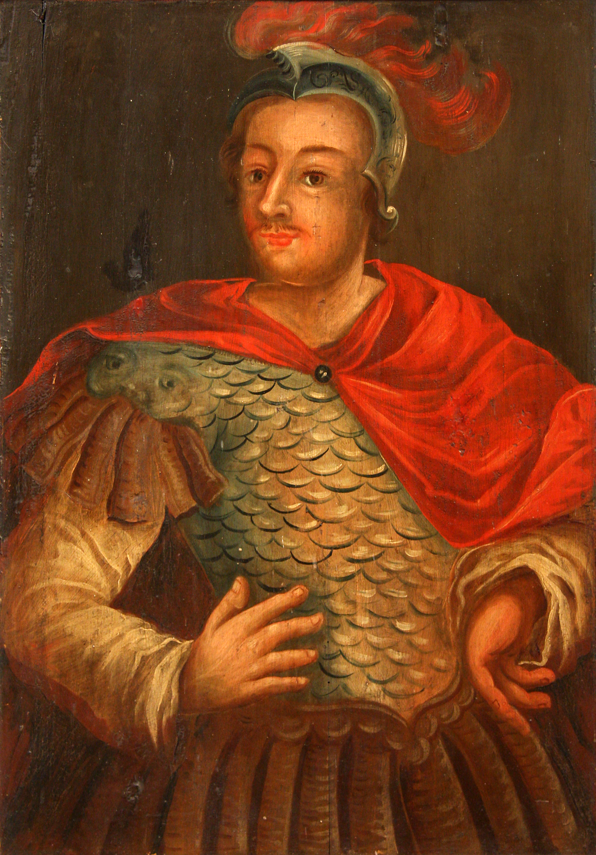 King Jehoshaphat on a 17th century painting by unknown artist in the choir of Sankta Maria kyrka in Åhus, Sweden.